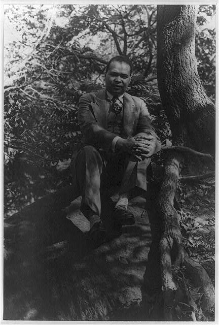 Portrait of Countee Cullen in Central Park. June 20, 1941.